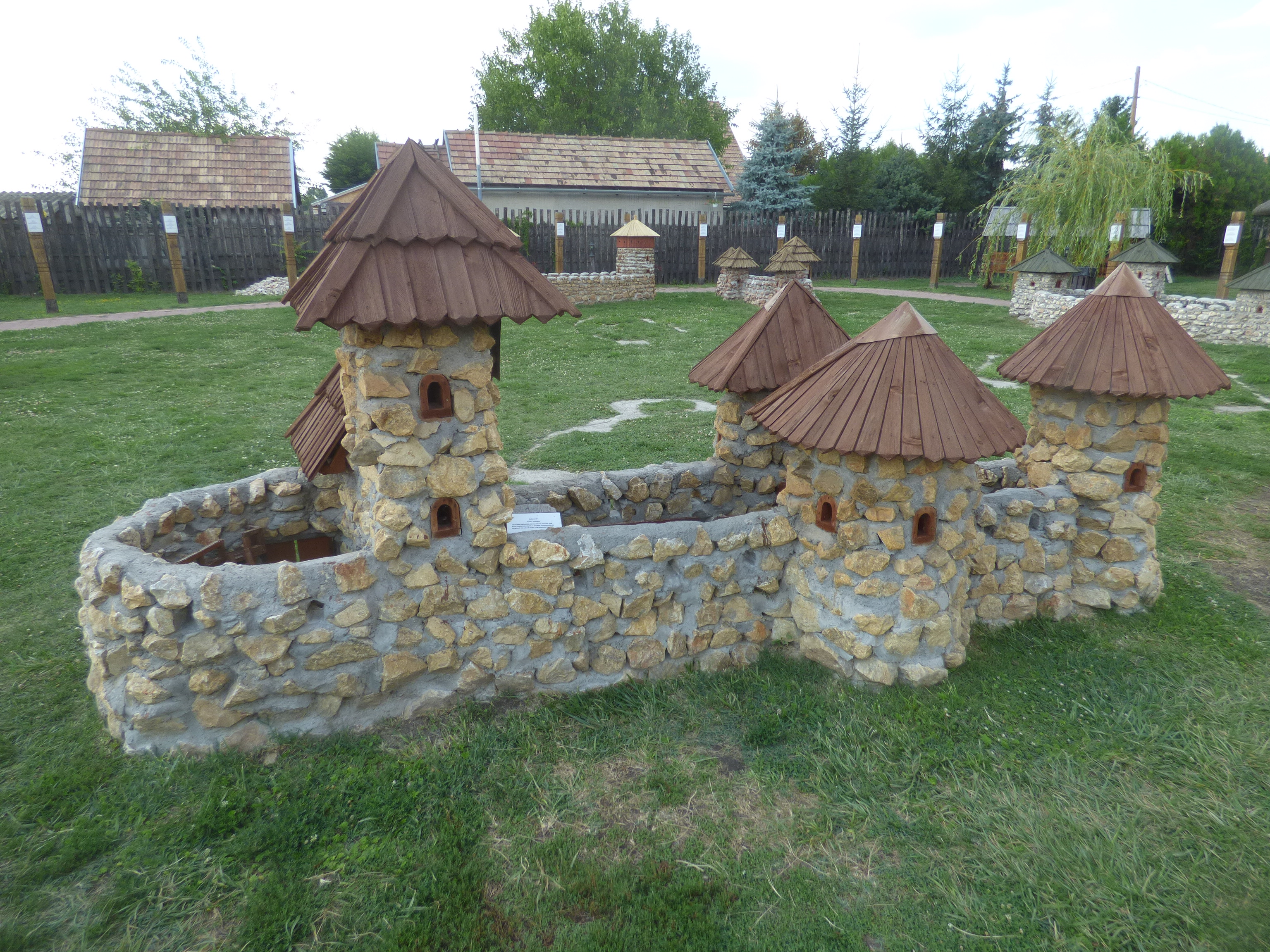 Sebesvár (Kissebes) makettje a dinnyési Várparkban